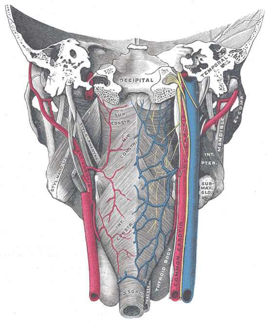 Muscles of the pharynx, viewed from behind, together with the associated vessels and nerves. (Modified after Testut.)